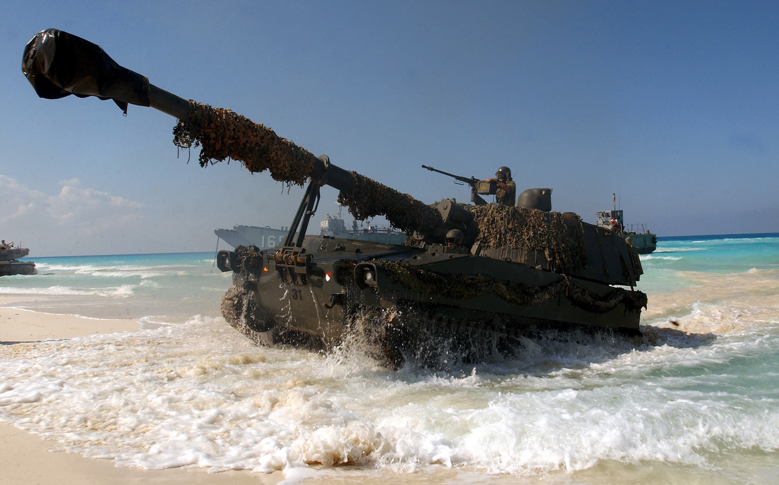 Original caption: "Spanish Army M109A5 155mm Self-propelled Howitzer comes ashore at El Omayed, Egypt as US, Spanish and Egyptian Forces conduct amphibious operations, during Exercise BRIGHT STAR 01/02. BRIGHT STAR 01/02 is a multinational exercise involving more than 74,000 troops from 44 countries that enhances regional stability and military-to-military cooperation among our key allies, and our regional partners. It prepares US Central Command to rapidly deploy and employ the forces needed to deter aggressors and, if necessary, fight and win side-by-side with our allies and regional partners." NOTE: Despite the original caption, this M109A2 is from the Naval Infantry (Infantería de Marina), not the Army.